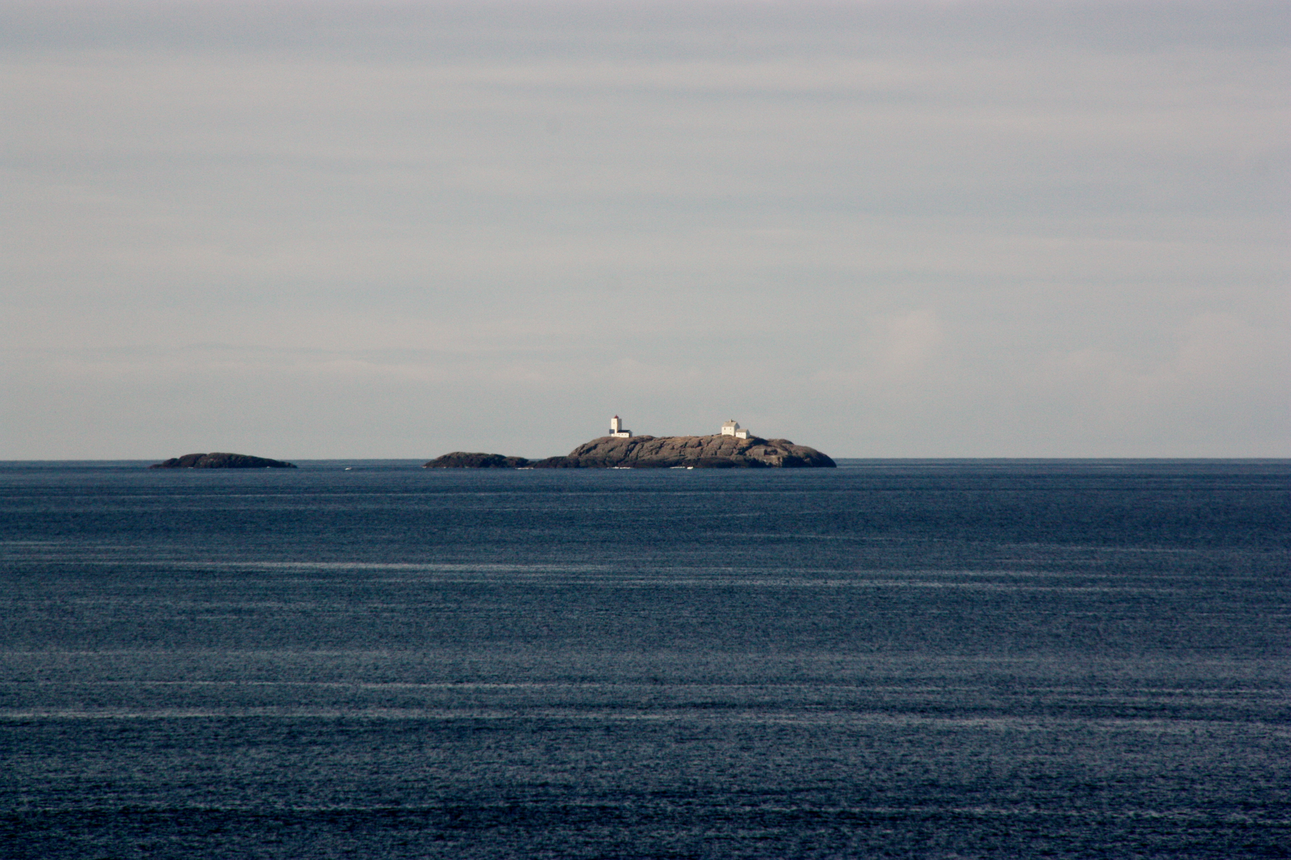 Holmengrå lighthouse at Fedje